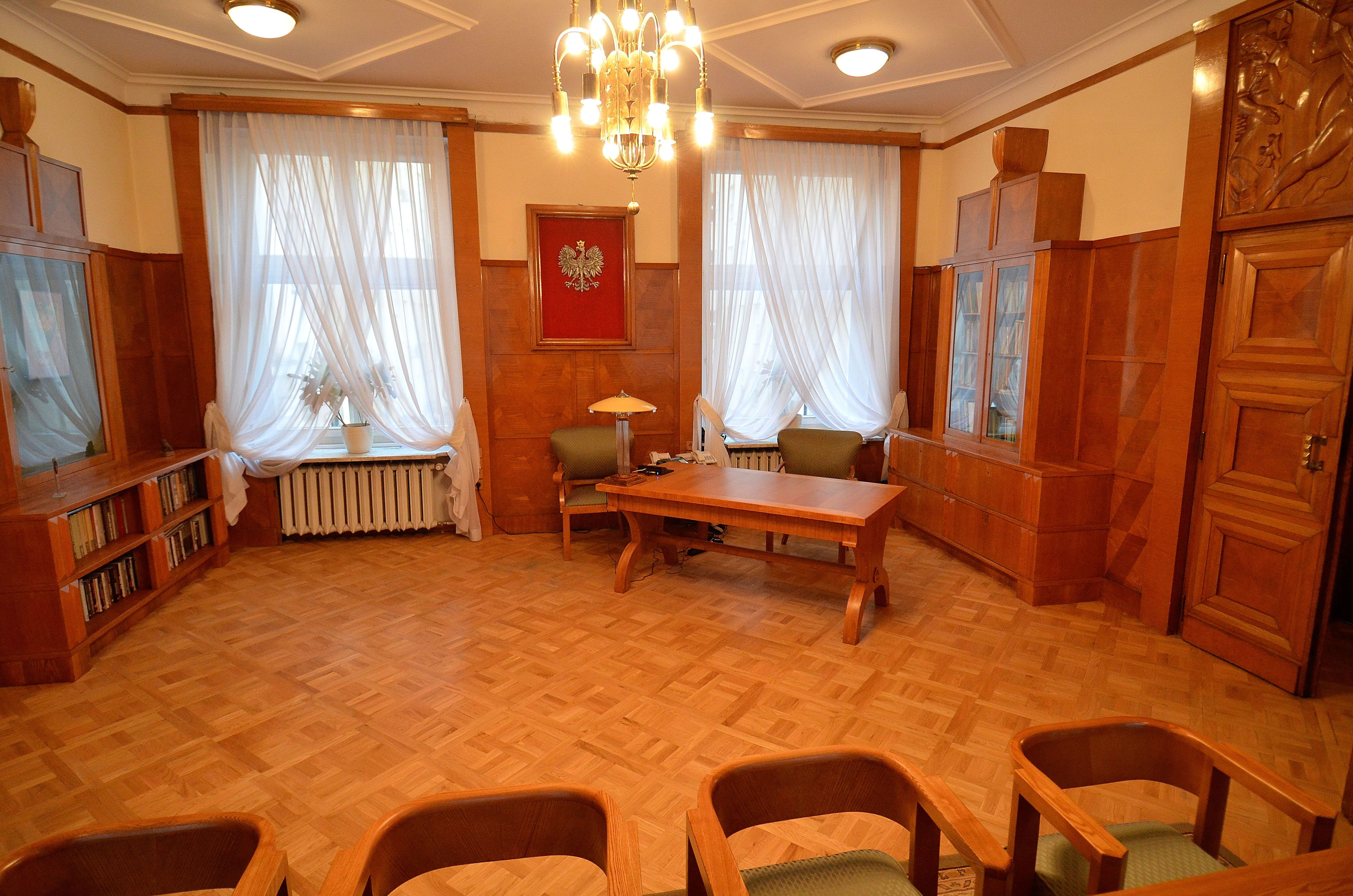 Ministry of National Education at 25 Szucha Avenue in Warsaw. Minister's office.